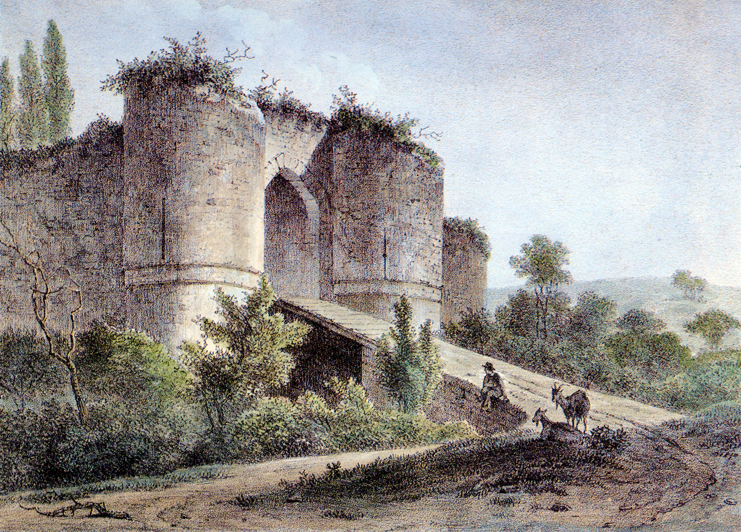 Colored engraving of the ruined château de la Royère in Néchin (Estaimpuis)